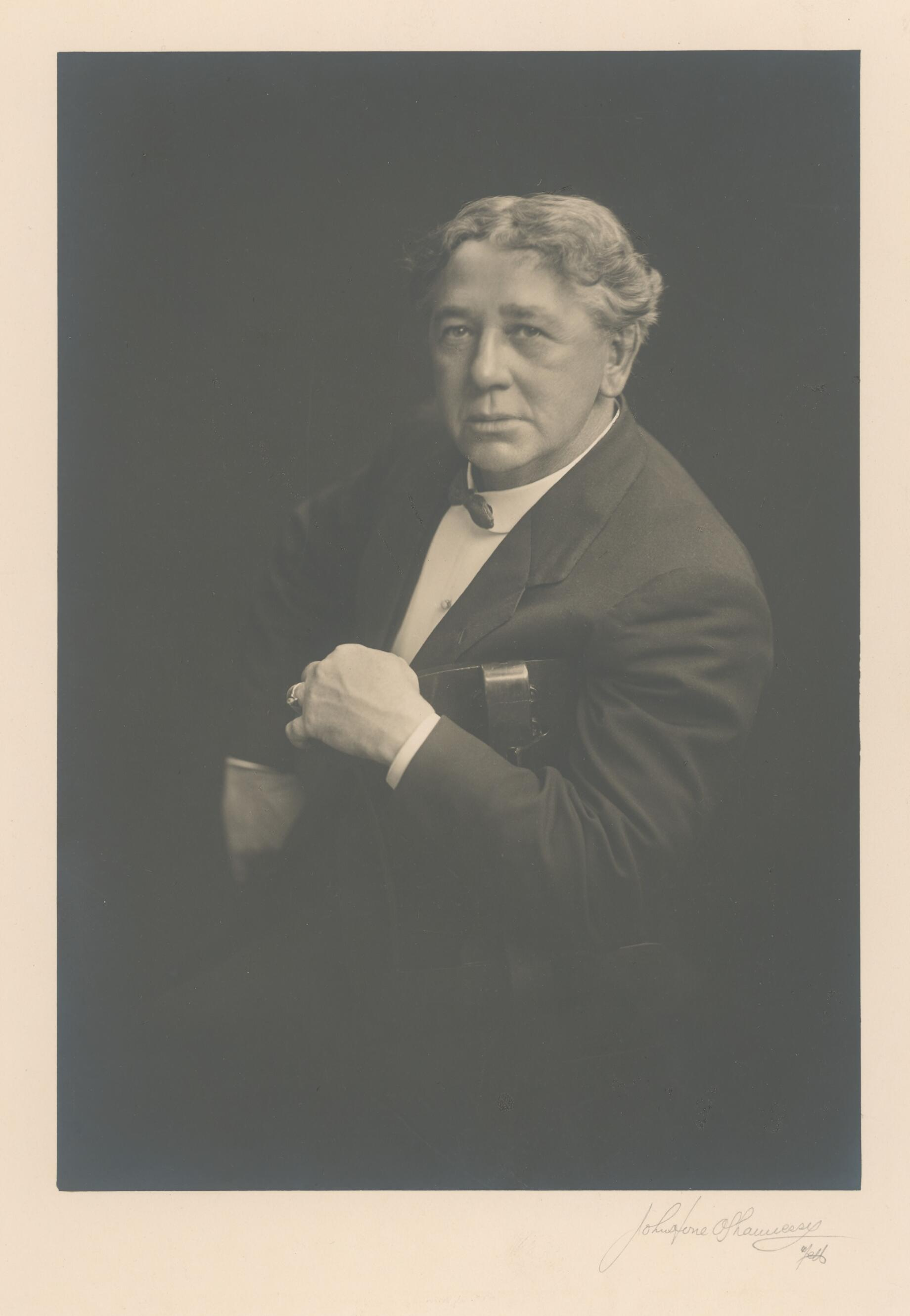 Australian politician Frank Anstey